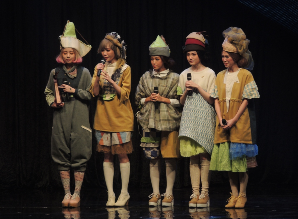 Super Girls @ Ultimate Song Chart Awards 2012